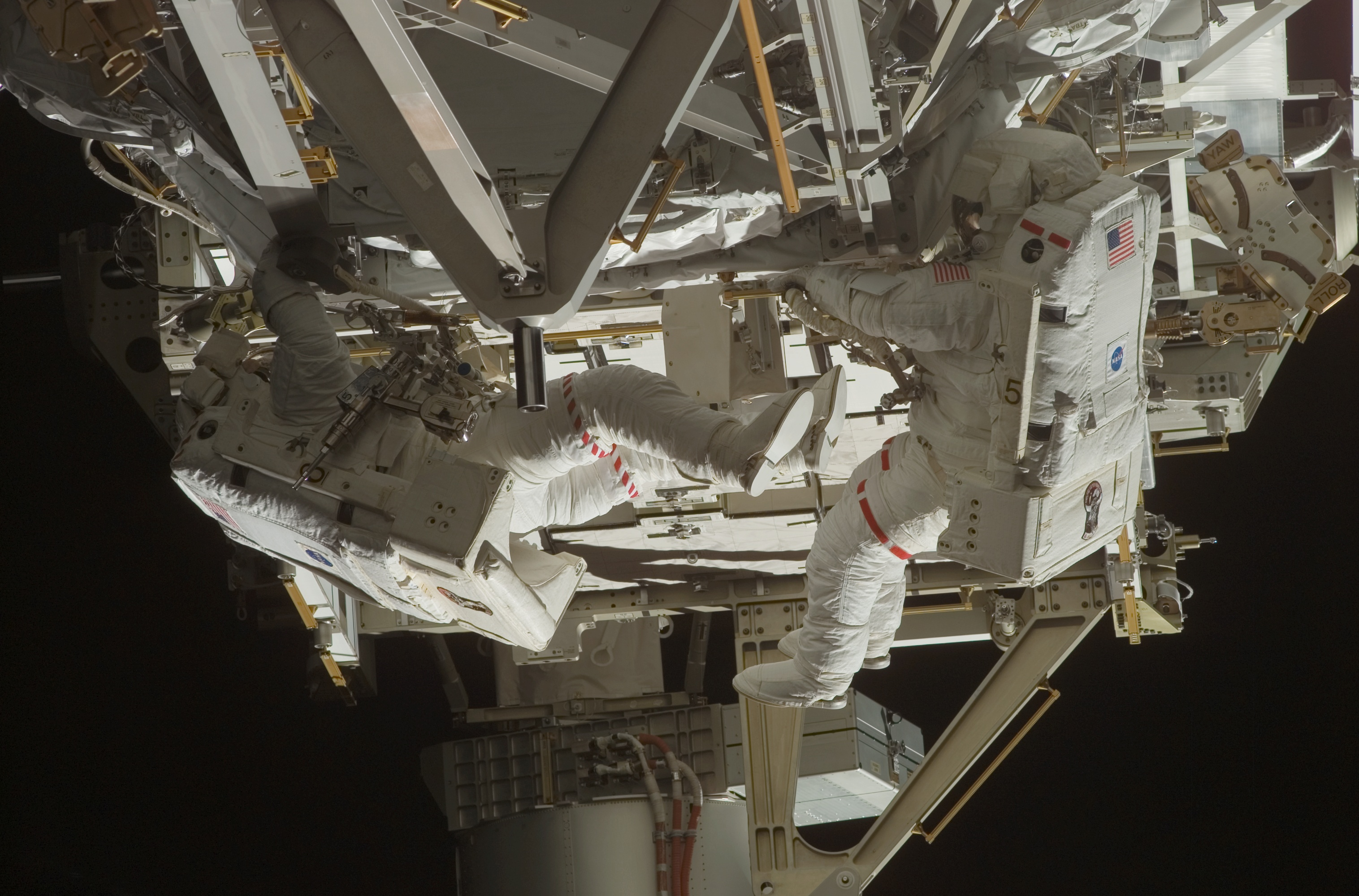 Patrick Forrester (right) and Steven Swanson, both STS-117 mission specialists, participate in the mission's fourth and final extravehicular activity, as construction continues on the International Space Station